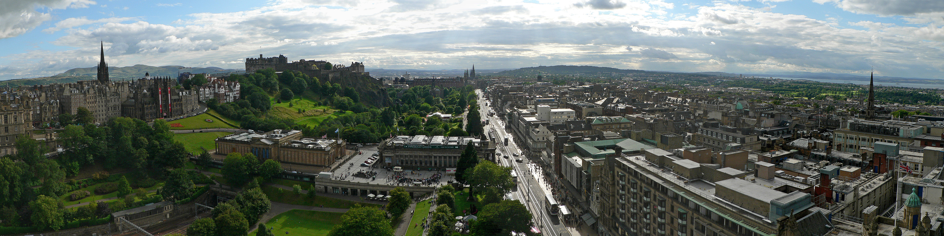 Edinburgh. Princes Street from the Scott Monument